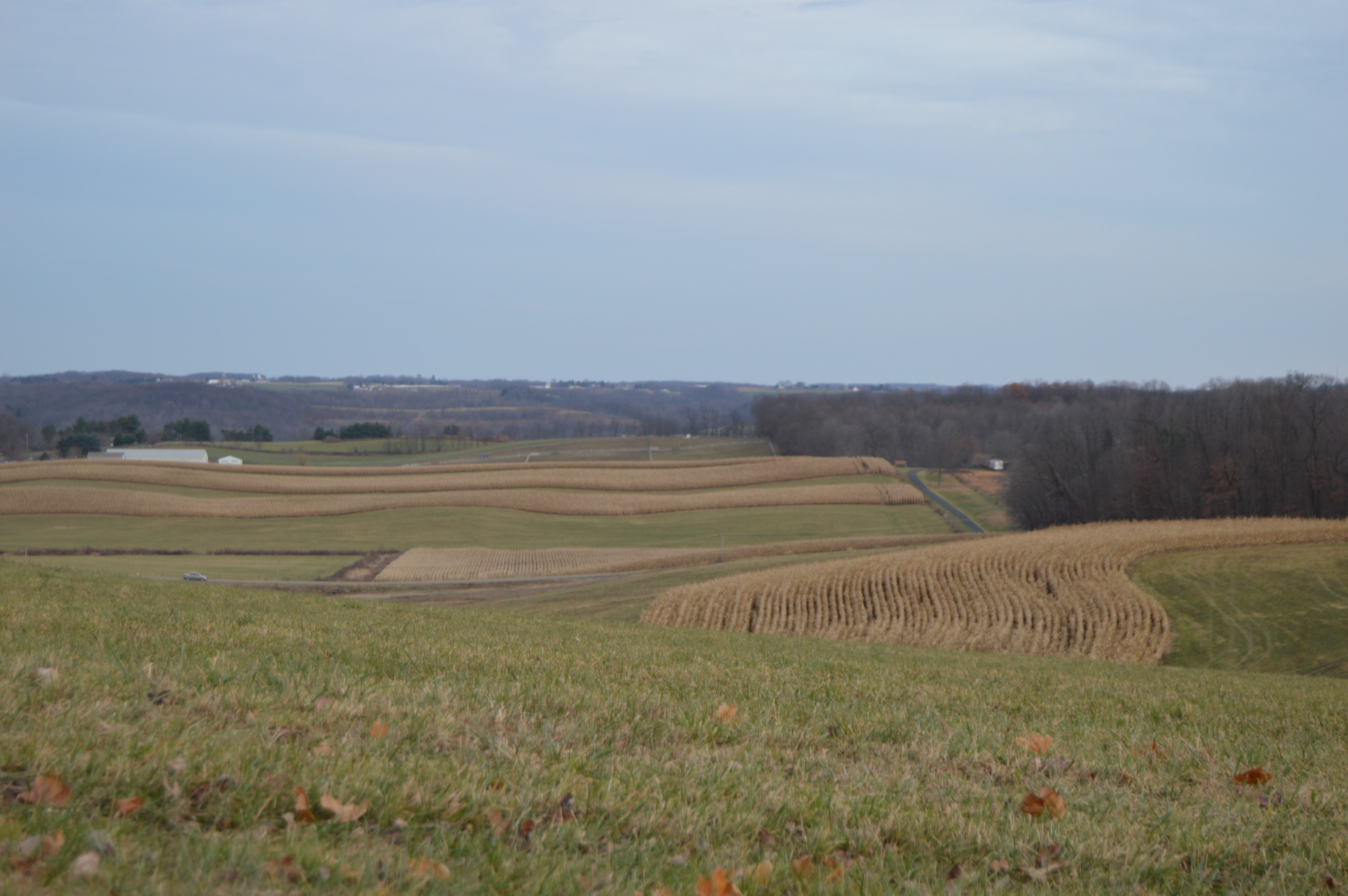 Hills and woods in northern Daugherty Township, Beaver County, Pennsylvania, United States. Photo looks east from Blockhouse Run Road, just south of its intersection with Wises Grove Road.